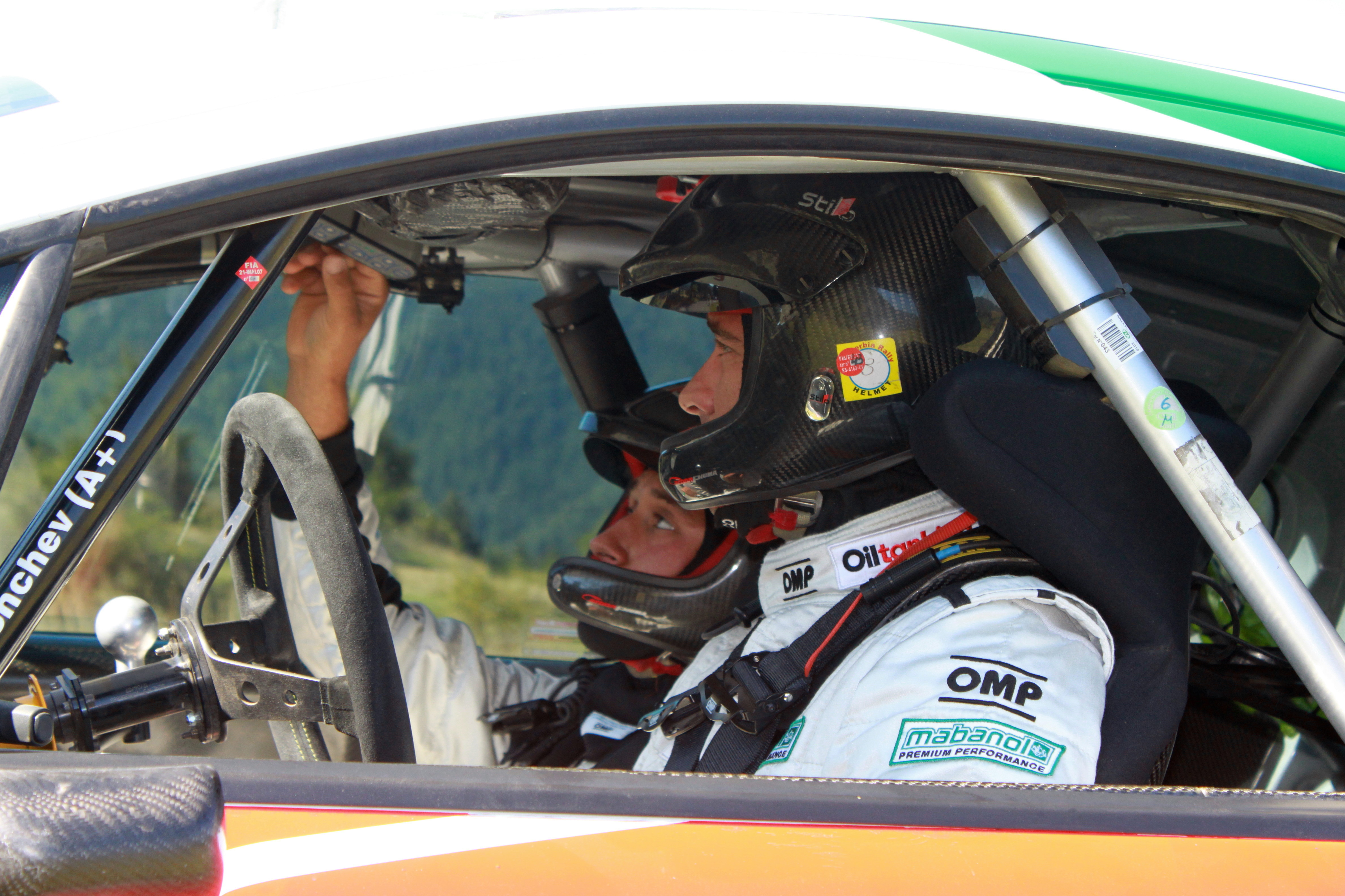 Bulgarian racecar driver Krum Donchev and co-driver Peter Yordanov